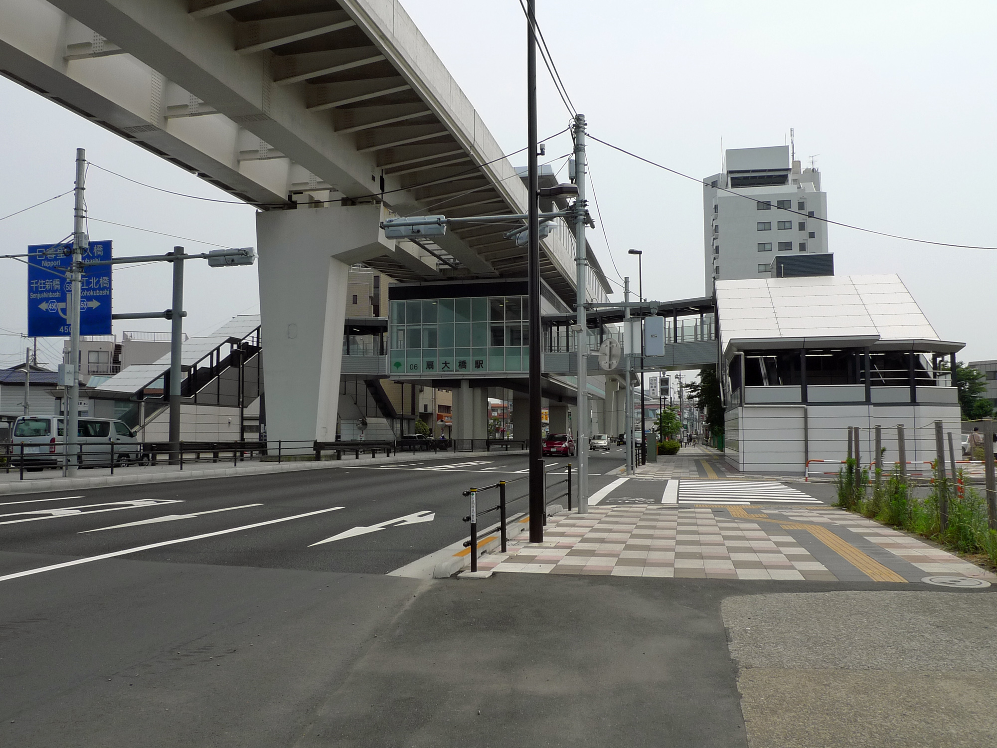 Ogi-ohashi station,Nippori-Toneri Liner.